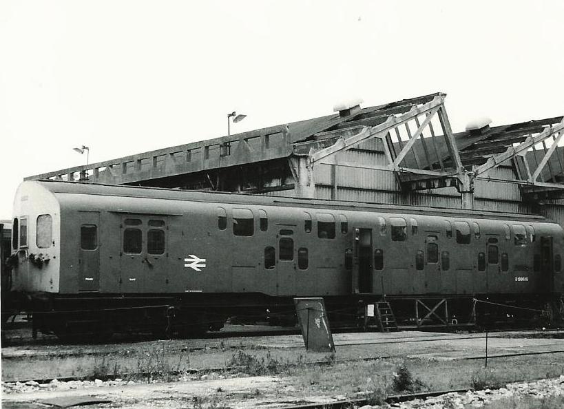 SR Bulleid Class "4-DD" 750v dc 3rd rail 4-car double deck inner commuter emu No.4902 (later No.4002) in Rail Blue with all yellow front end at the Ashford Steam Centre, 10/72. Scanned photograph taken with a Kowa SET.